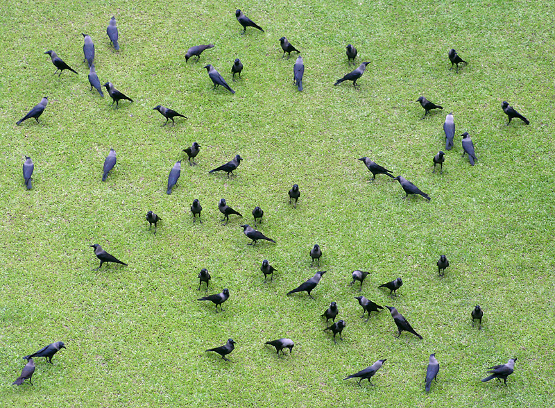 House Crow Corvus splendens in Kolkata, West Bengal, India.